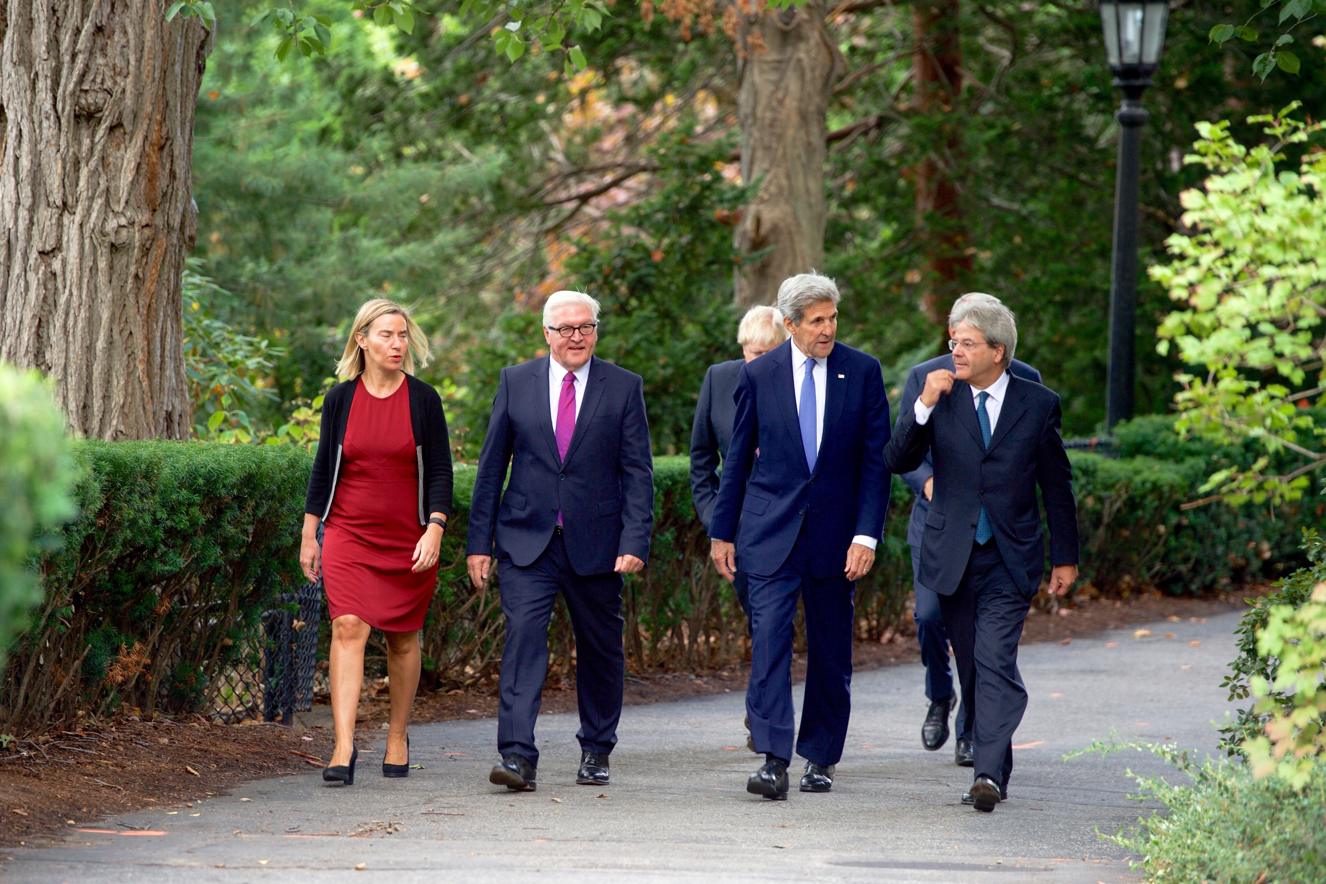 U.S. Secretary of State John Kerry, joined by the Foreign Ministers from the United Kingdom, France, Germany, Italy, and the European Union, walks across the campus of Tufts University in Medford, Massachusetts, on September 24, 2016, before a meeting of the so-called Quintet in the Secretary's home-state of Massachusetts. [State Department photo/ Public Domain]